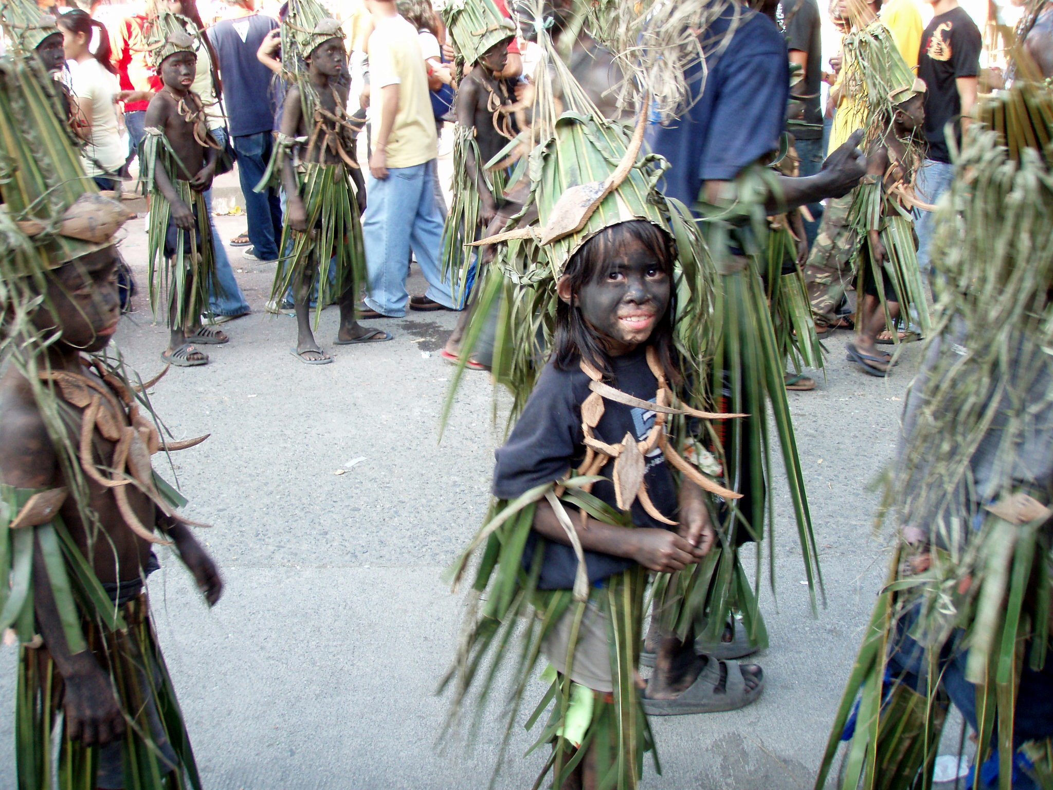 Kalibo, Aklan's Ati-atihan Festival of 2007. Featuring the Original tribal Group "The MOBONIANS" in costume